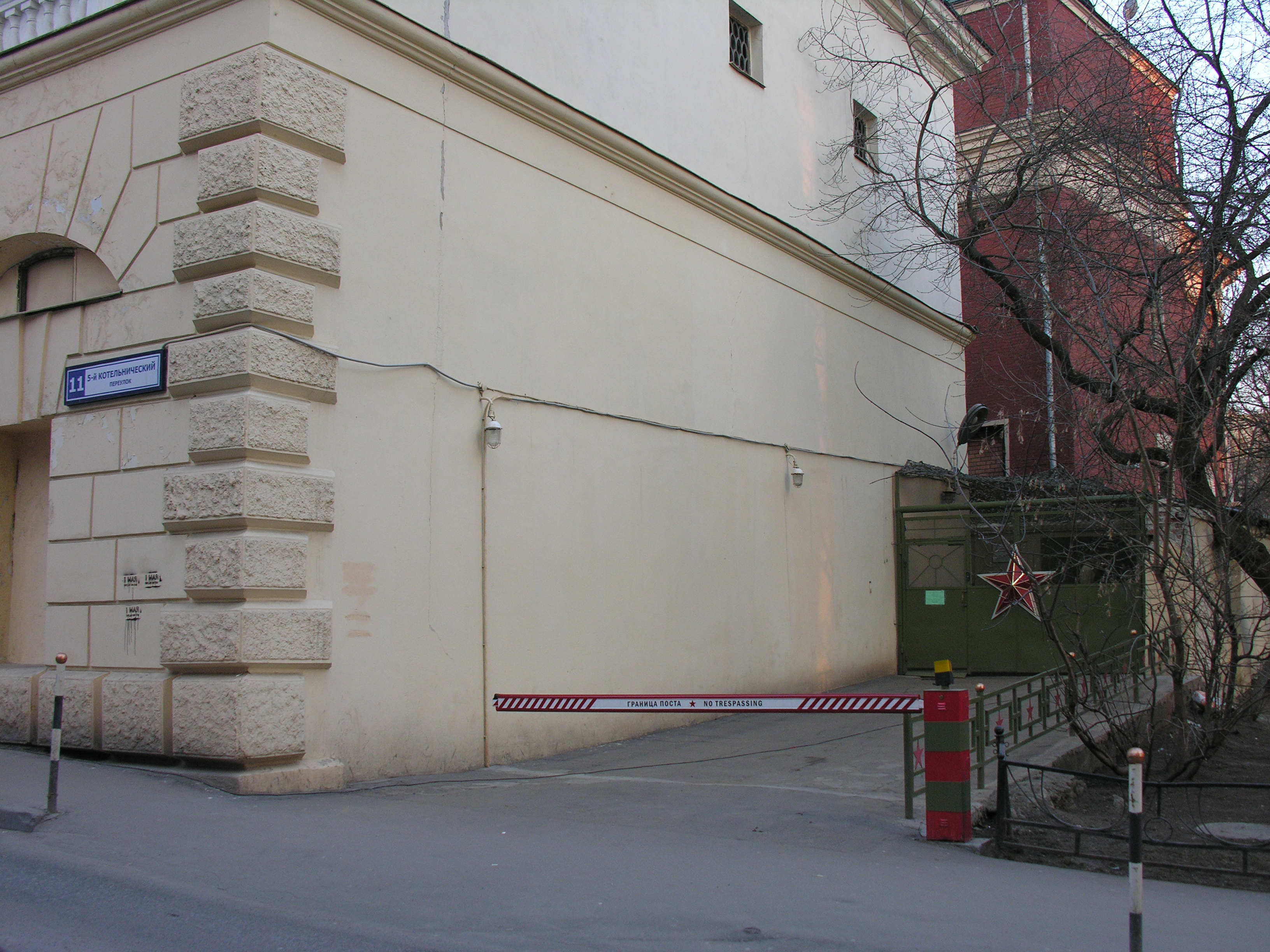 Entrance into the Cold War Museum, Moscow